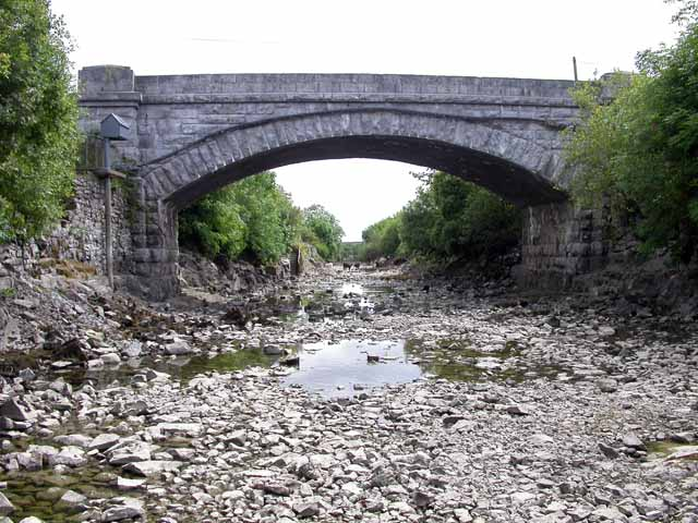 Carrownagower Bridge, Cong Canal. The Cong Canal was a 19th Century engineering folly. Linking Lough Mask to the North with Lough Corrib to the south, it was excavated through highly karstified limestone and hence leaks like a sieve. In summer most of the water from Lough Mask drains underground before even reaching the canal, but in winter the canal can become a raging torrent following prolonged heavy rain